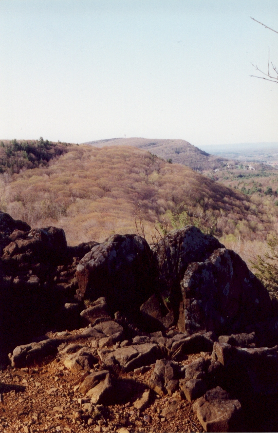 Talcott Mountain Pinnacle. Penwood State Park. Connecticut. by Paul Gagnon 2002